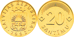 20 Santimu Latvia Obverse: The small coat of arms of the Republic of Latvia, encircled by the inscription LATVIJAS REPUBLIKA • 1992 (Republic of Latvia 1992), is placed in the centre. Reverse: The numeral 20 is centered on the coin. The inscription SANTIMU, arranged in a semicircle, is beneath the numeral 20. Above the numeral, five arcs join two diamond-shaped suns which are located on either side of the numeral 20. Edge: plain.